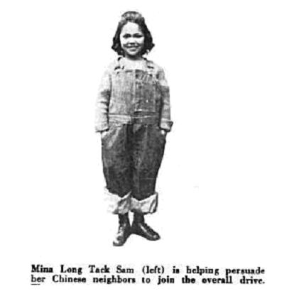 Long Tack Sam (daughter)0